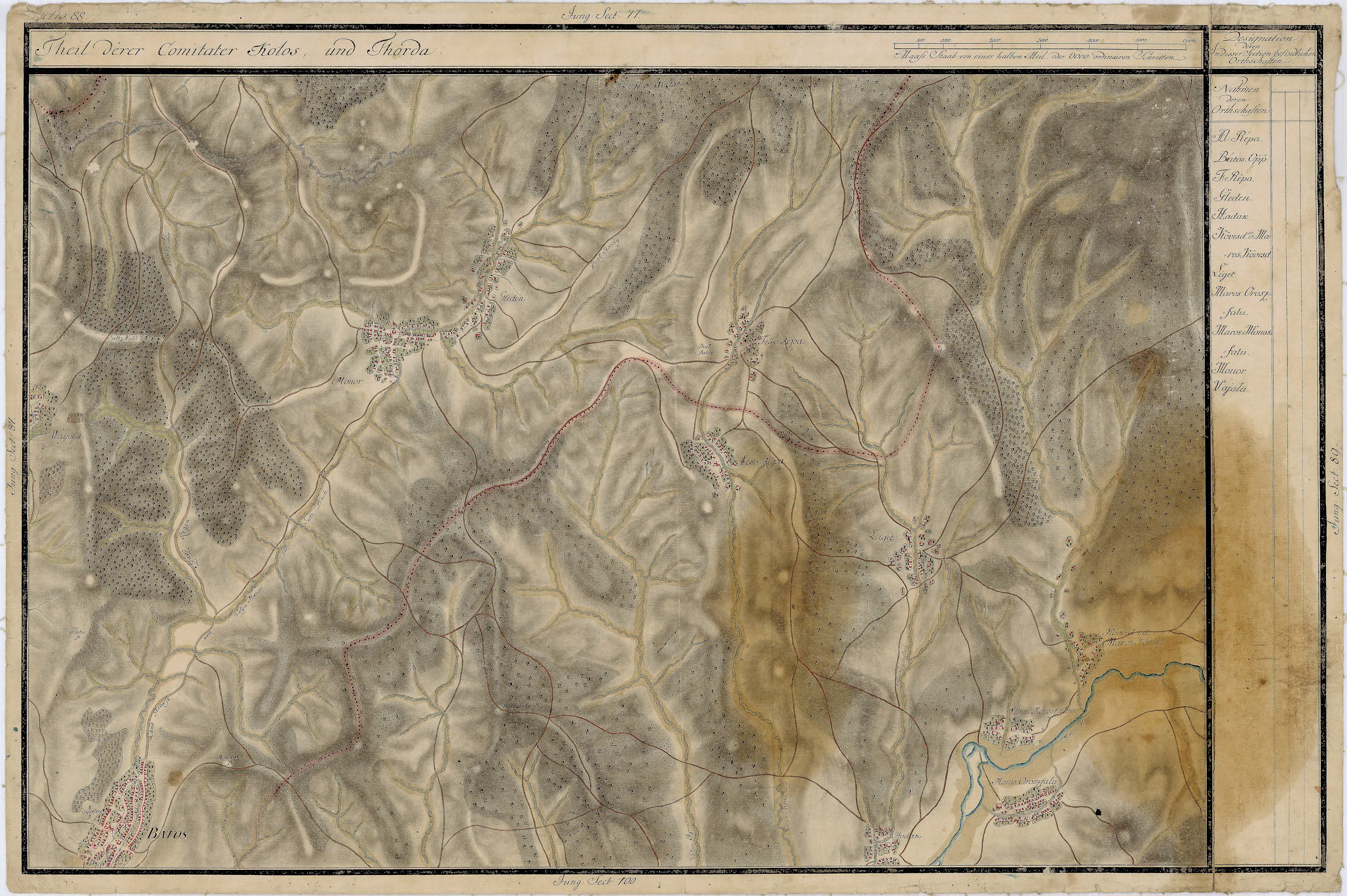 Grand Duchy of Transylvania, 1769-1773. Josephinische Landaufnahme pg.088